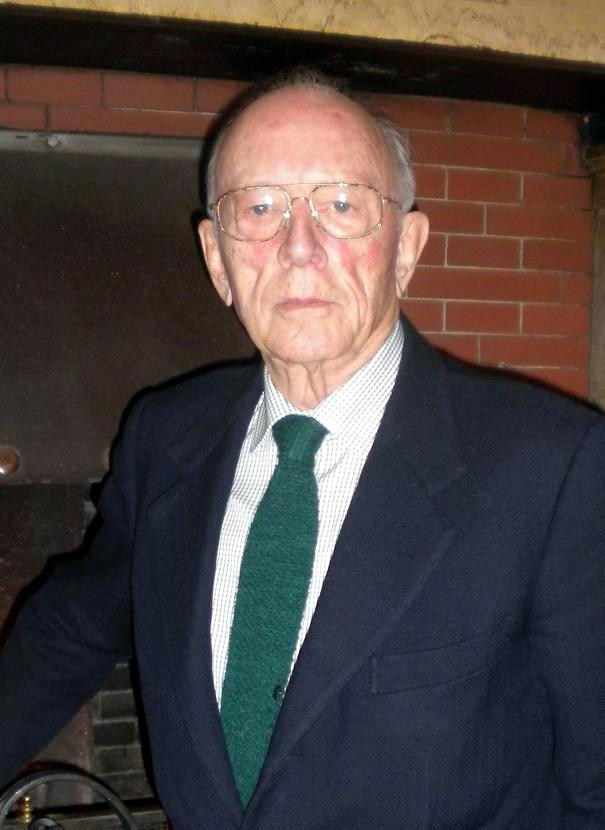 HRH Landgrave Moritz of Hesse in the entrance hall of Friedrichshof Castle.